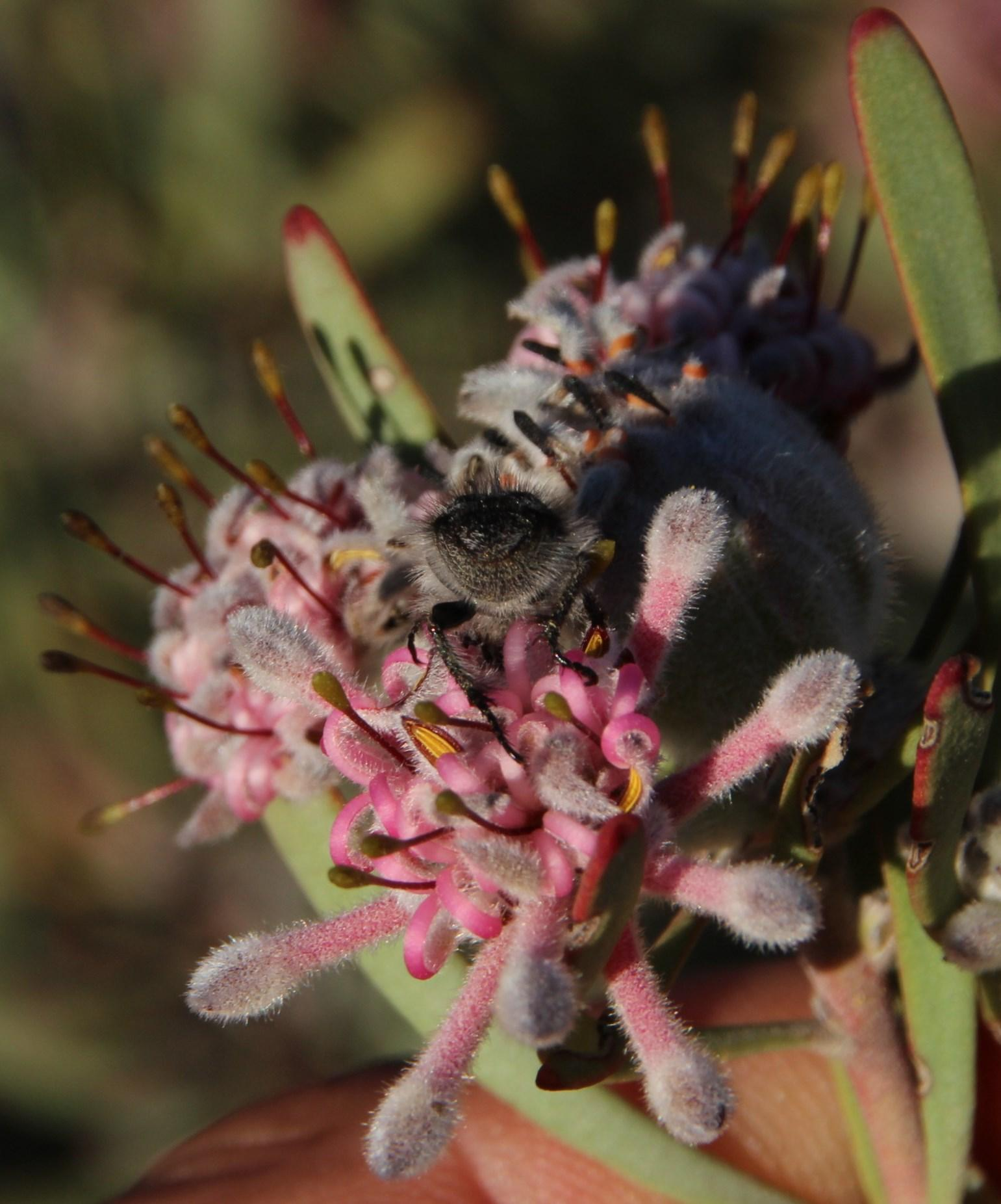 A stem with three flower heads of the Witteberg vexator, Vexatorella obtusata subsp. albomontana, photographed by Tony Rebelo on 22 October 2015 at tjhe Perdekloof Pass, 5 km North of the N1 road